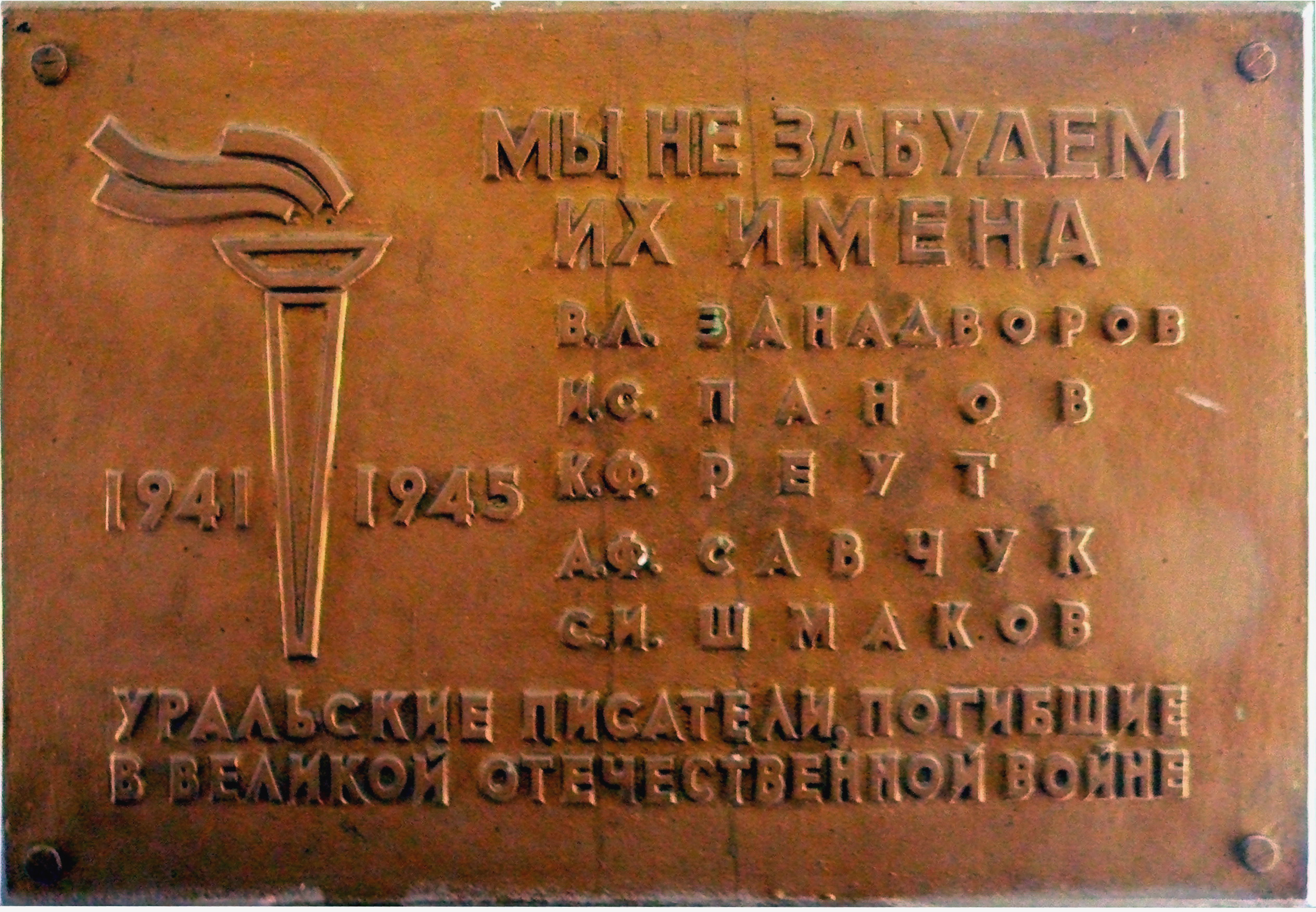 Екатеринбург. Дом писателя. ул. Пушкина д.12